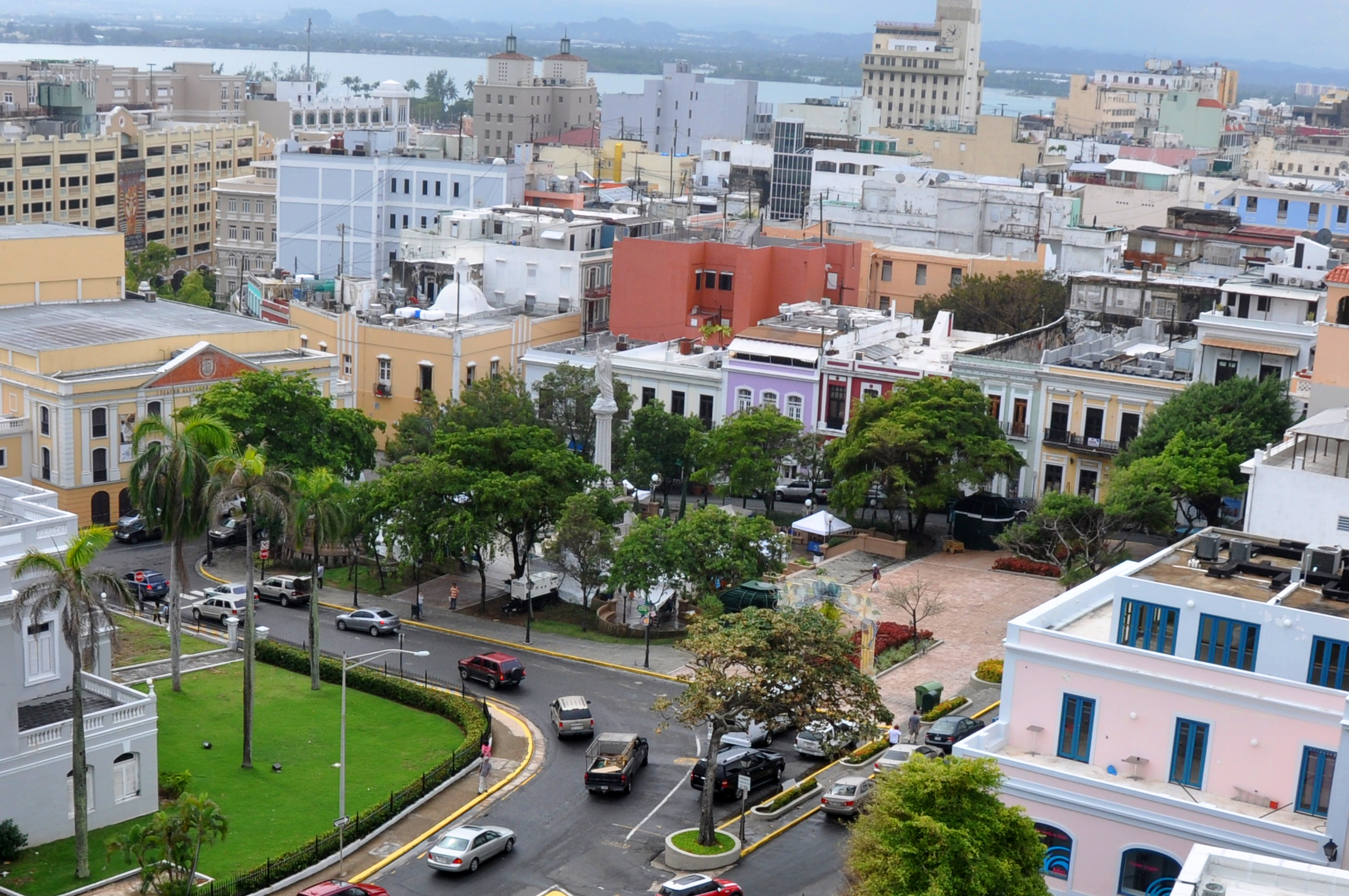 This is a cropped image of [File:Plaza de Colón (Columbus Plaza) as seen from the Castillo de San Cristóbal (5420920809).jpg] Purpose; Closer view of plaza